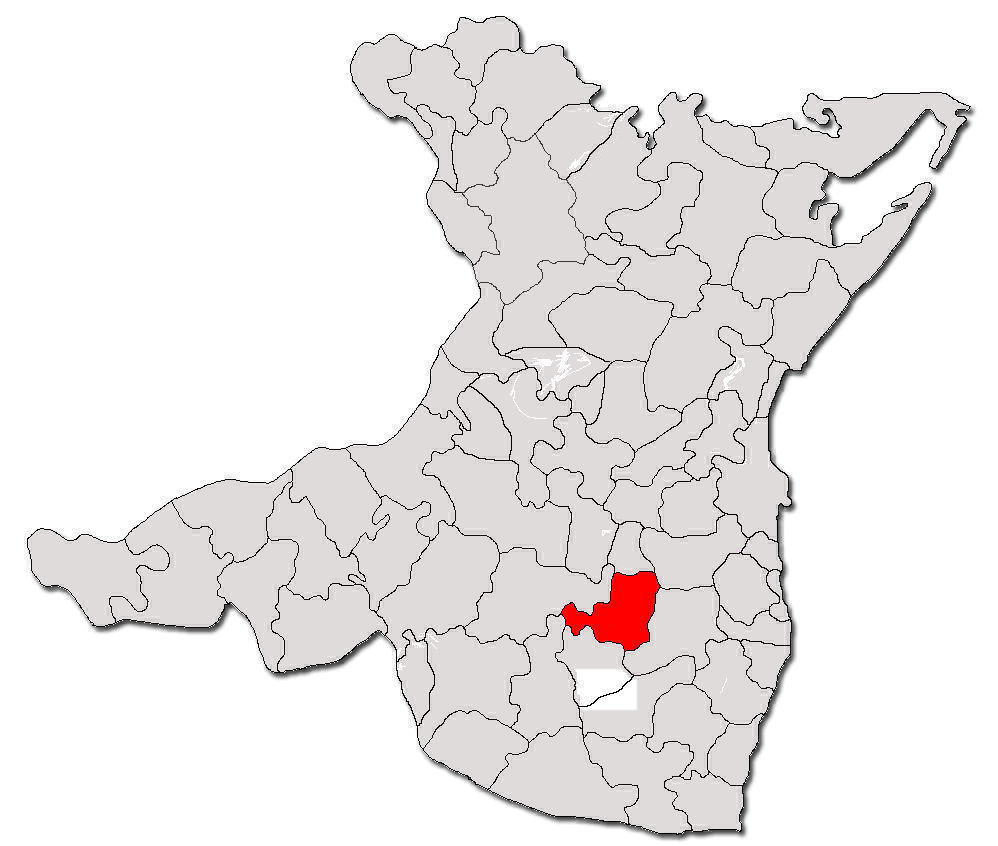 Contour map of Garliciu commune